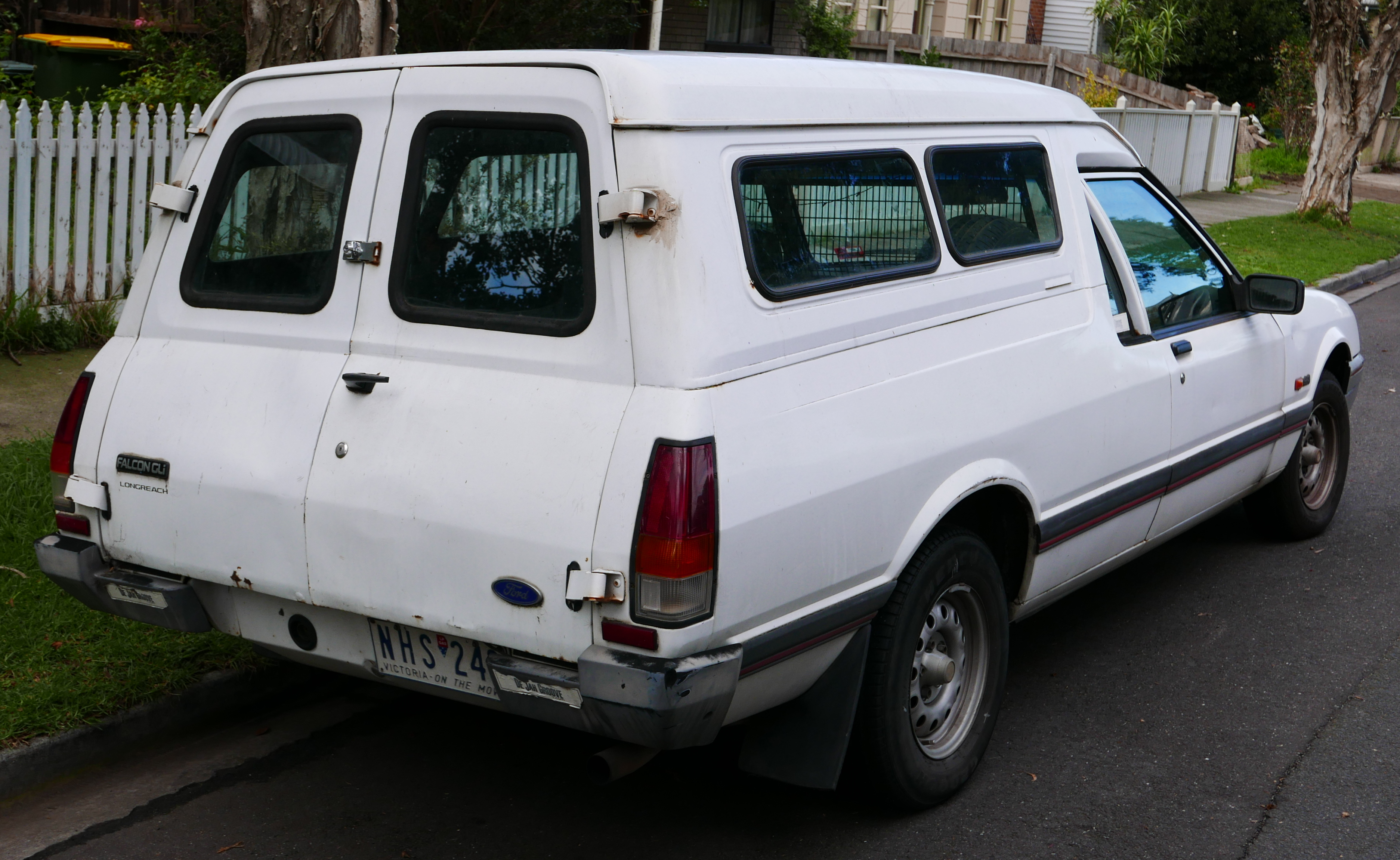 1995 Ford Falcon (XG) Longreach GLi panel van. Photographed in Northcote, Victoria, Australia. Vehicle registration enquiry results Jurisdiction Victoria Registration NHS242 Chassis code 6FPAAAJLCMSE23834 Engine code JLCMSE23834 Compliance date 1995-04 Year of manufacture 1995